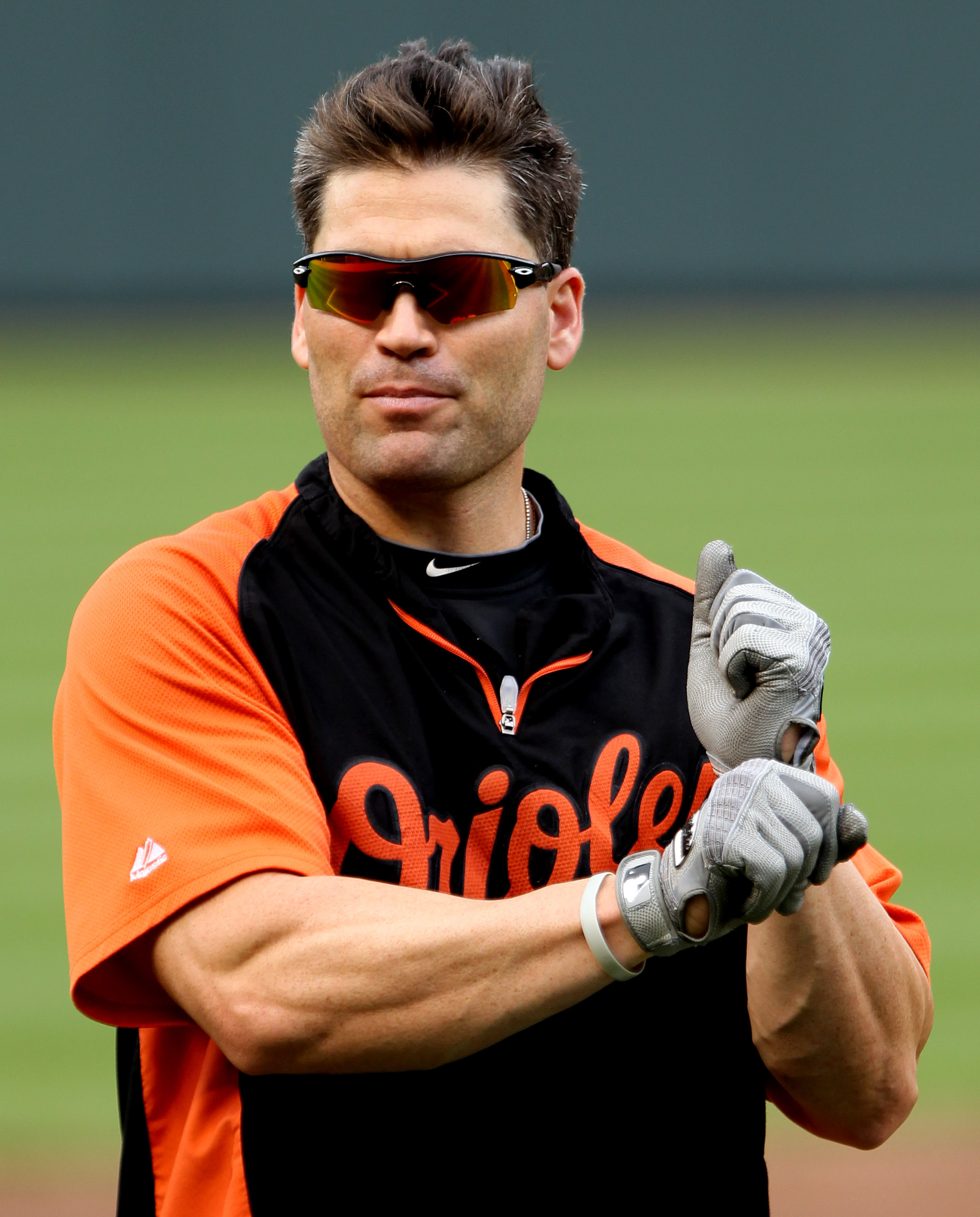 Reds at Orioles June 25, 2011.